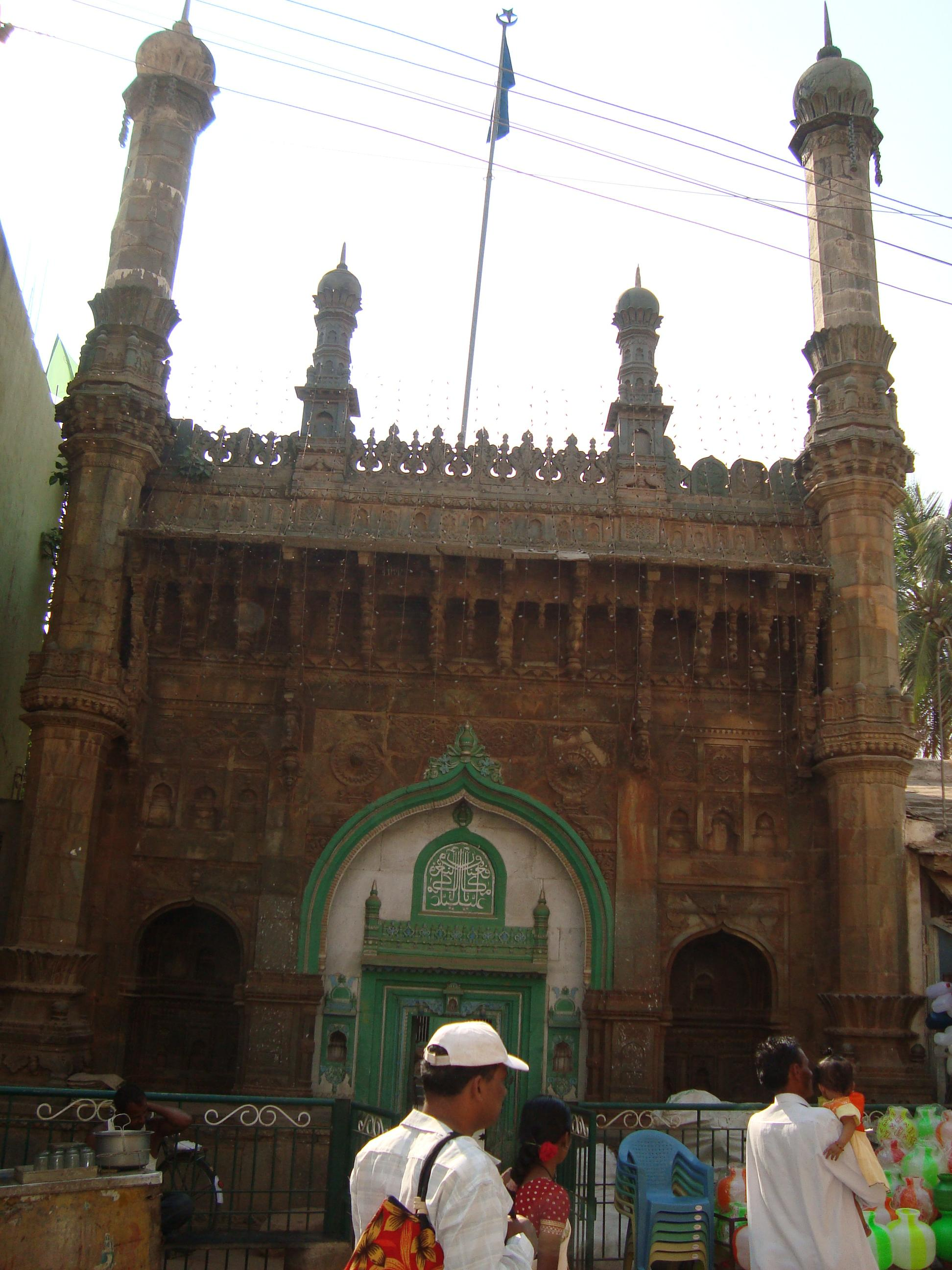 Lakshmeshwara Jumma Maszid Author and source : Manjunath Doddamani, Gajendragad/Hubli, Karnataka(North), India.